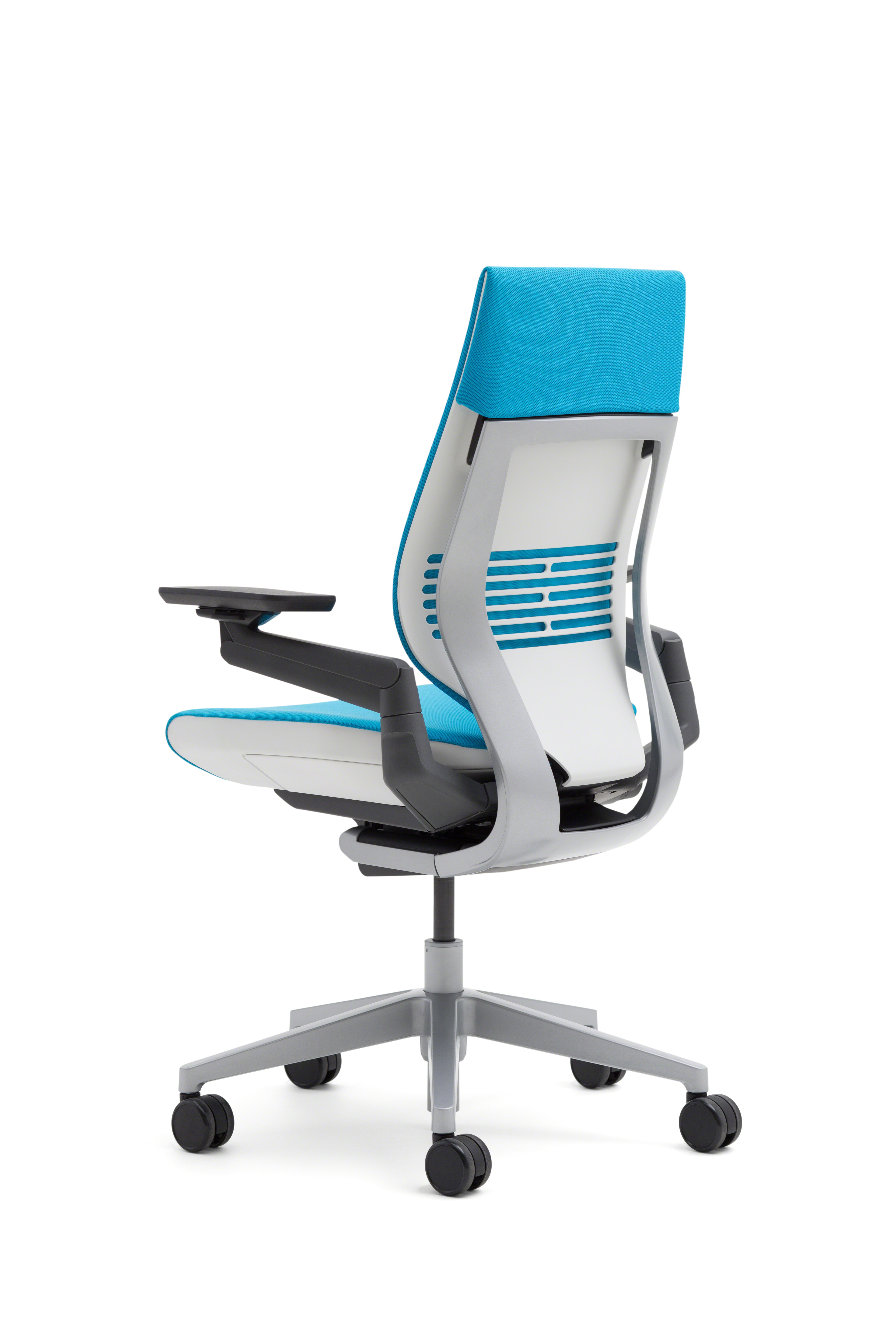 2013 photo of a Gesture wrapped back in Blue Jay fabric with platinum frame and base with Seagull accents.